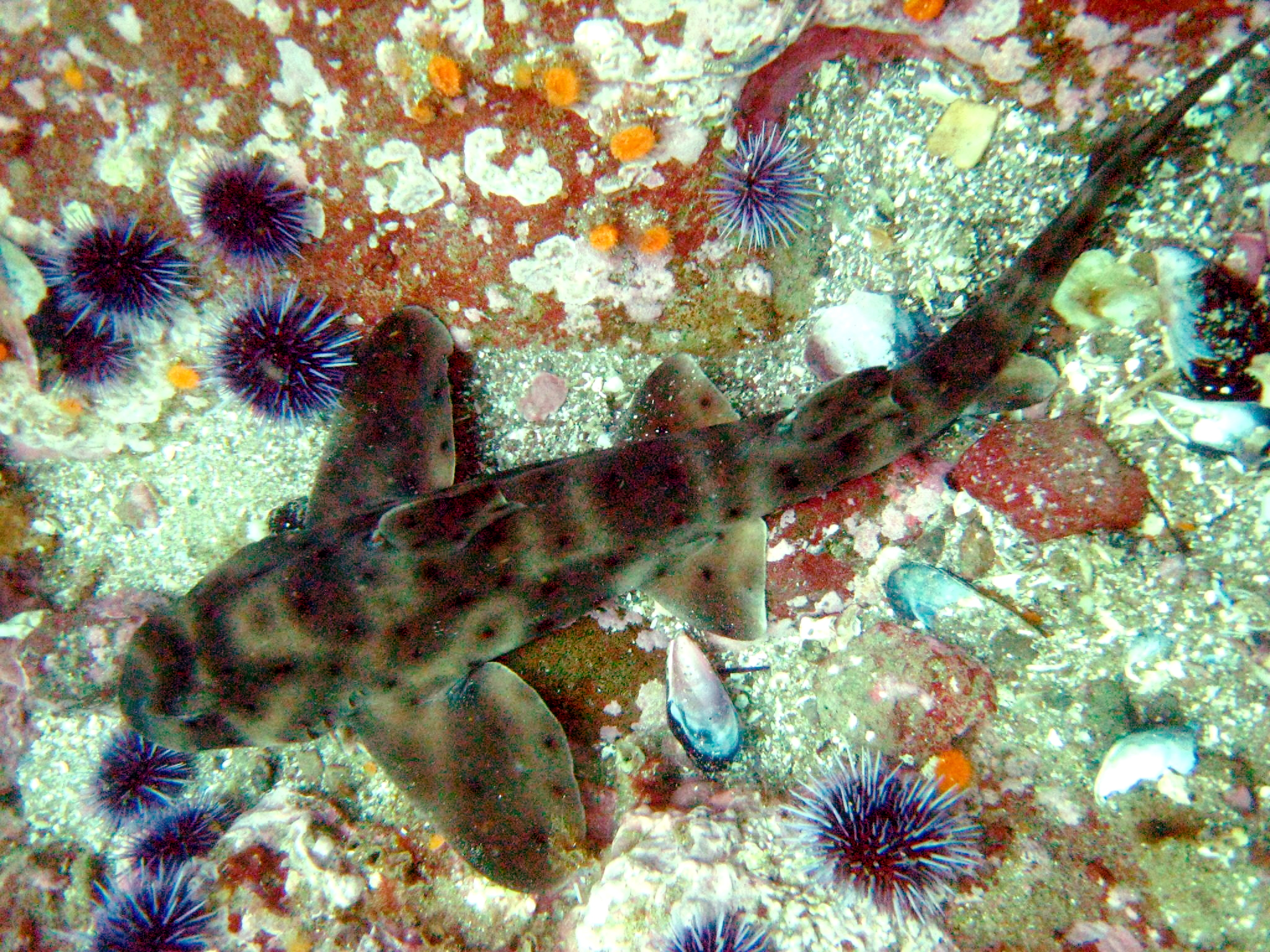 Juvenile horn shark (Heterodontus francisci) off the Channel Islands